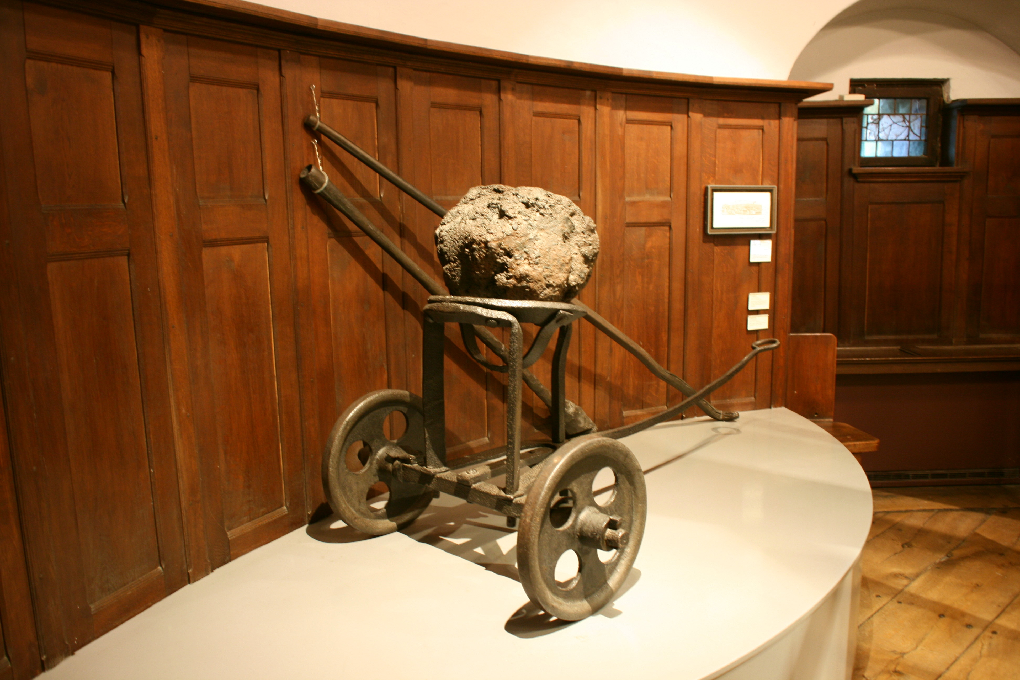 Clump of osmond iron in the museum of Burg Altena in Altena